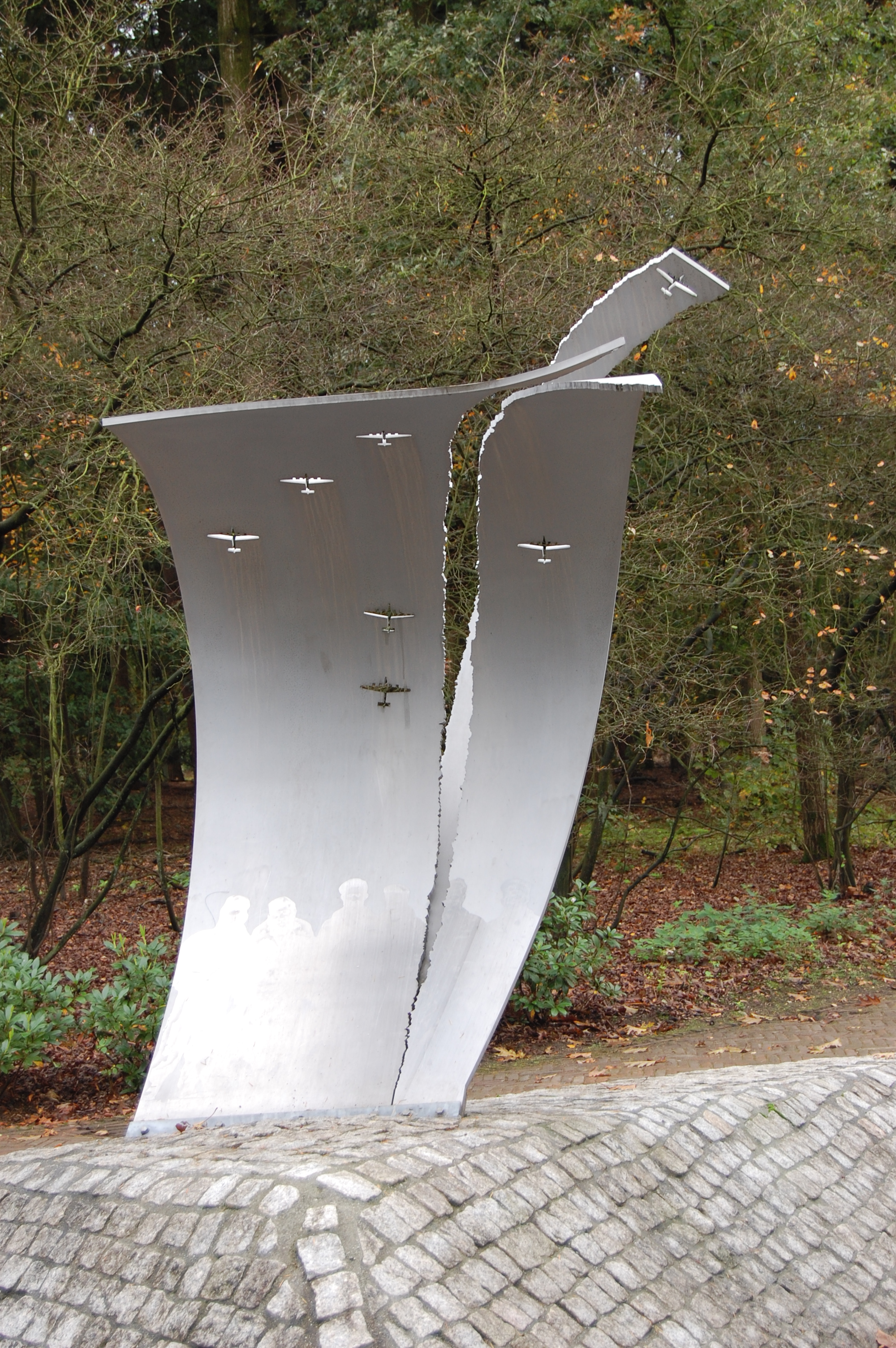 The Missing Man Salute memorial, then in Zeist/Soesterberg, The Netherlands.